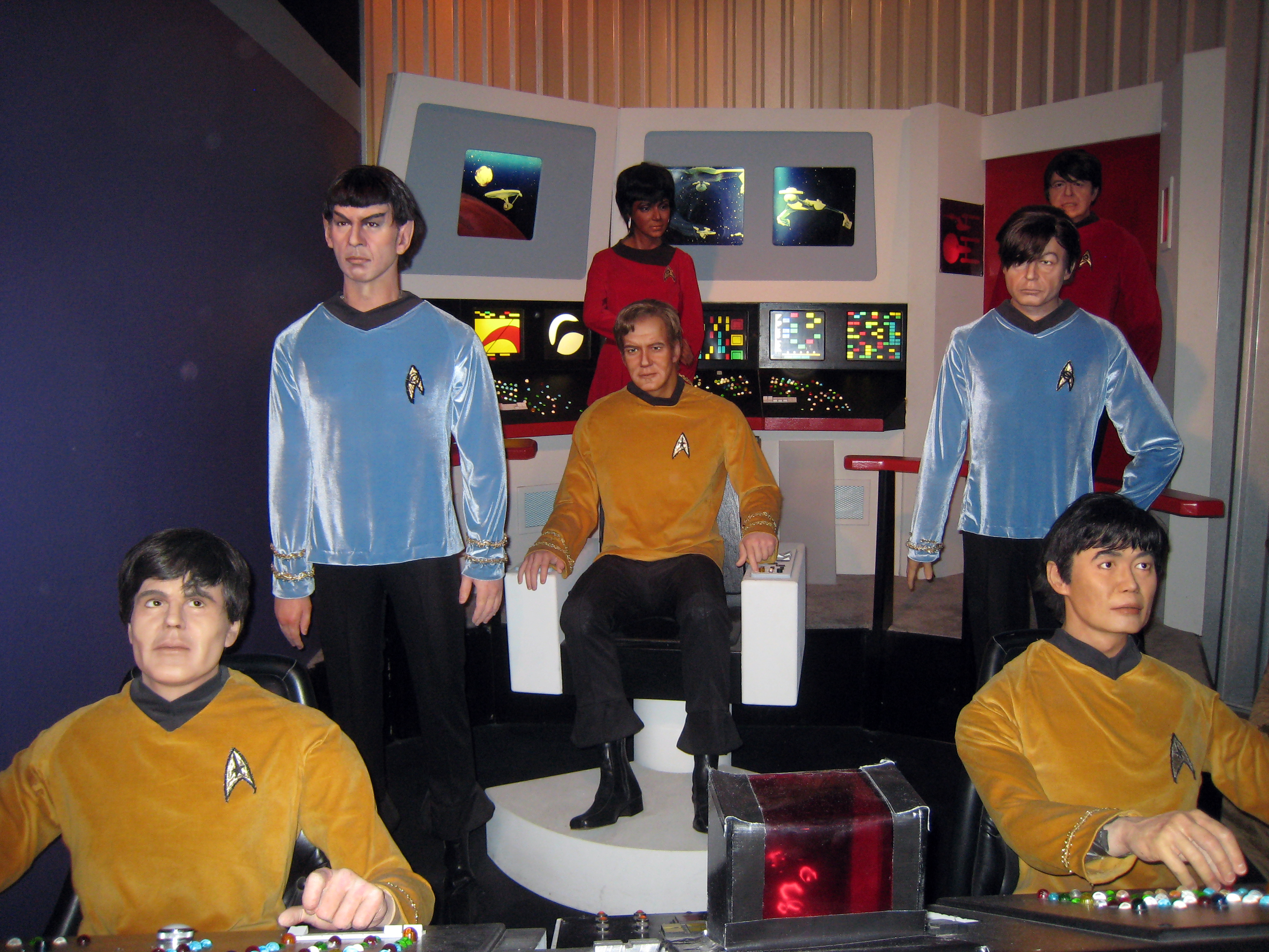 Star Trek: The Original Series crew at "The Palace of Wax"